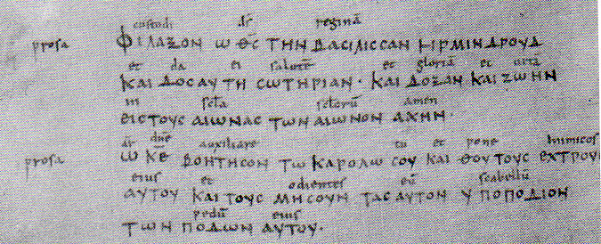 Greek prose prayers, with Latin interlinear gloss, for Ermentrude of Orléans and Charles the Bald in MS Laon, Bibl. mun. 444, fol. 297v; attributed by Ludwig Traube to Martinus Hibernensis (MGH Poetae III, p. 697, No. XII.iv), reproduced from Michael W. Herren to Johannes Scotus (Eriugena); reproduced from Michael W. Herren, Iohannis Scotti Eriugenae carmina, Dublin: Dublin Institute for Advanced Studies, 1993 (= Scriptores Latini Hiberniae, 12), Plate II